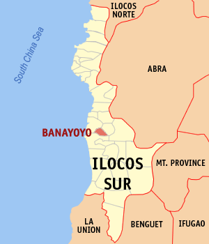 Map of Ilocos Sur showing the location of Banayoyo